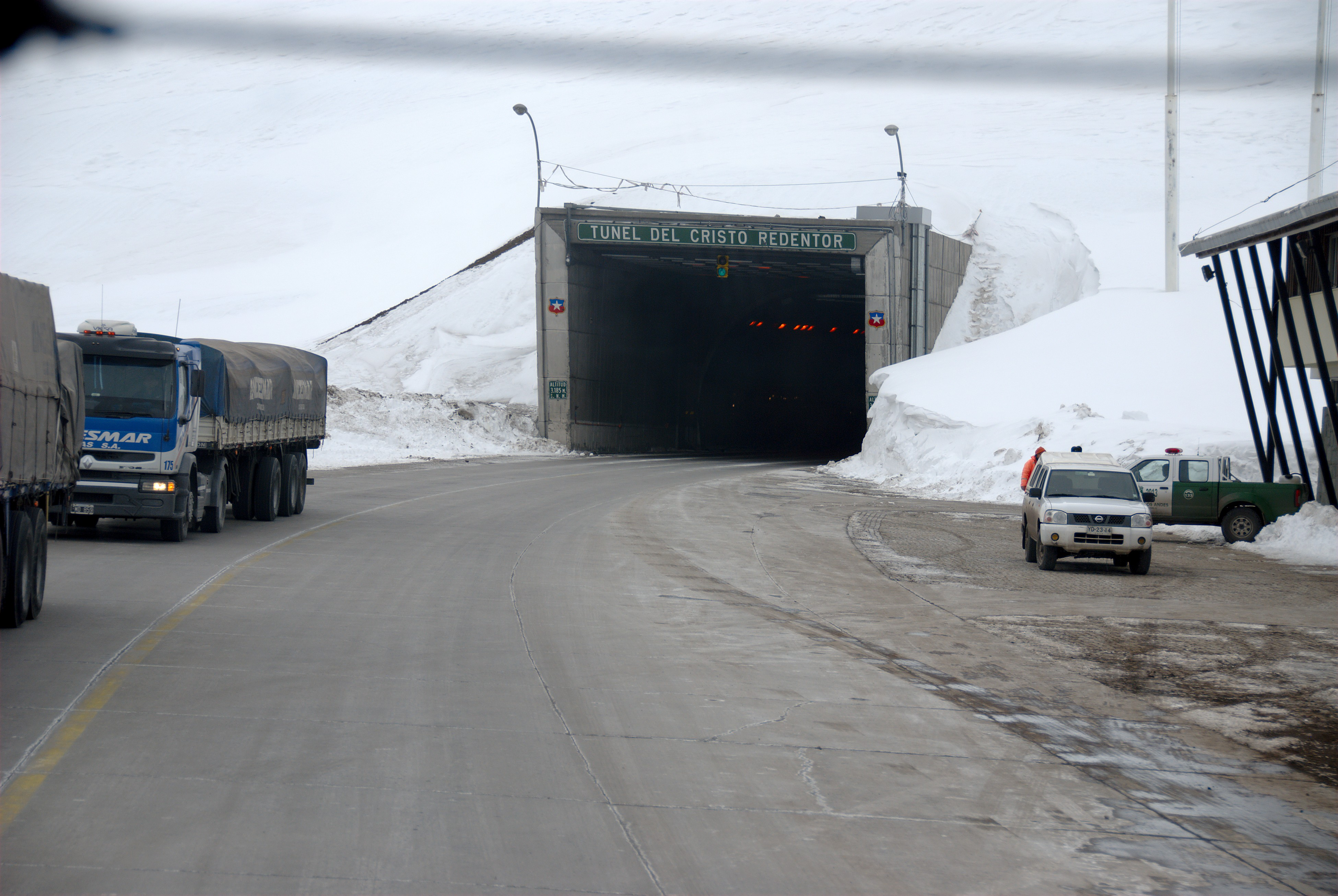 The Chilean end of Tunel del Cristo Redentor in winter. The tunnel had been closed for the two days previously due to heavy snowfalls.